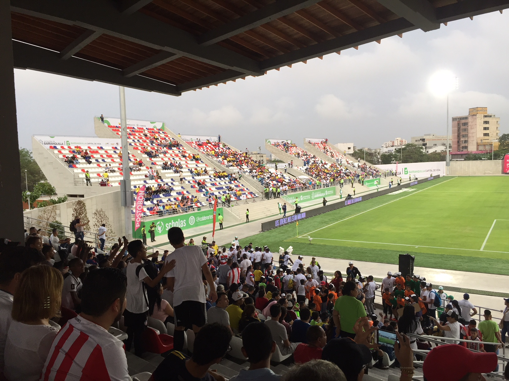 Eastern stands